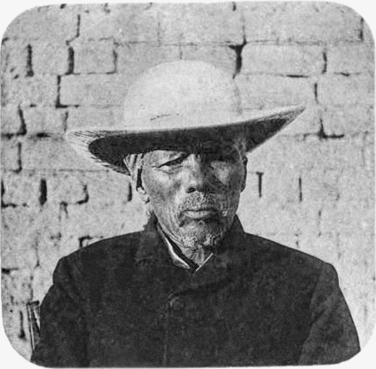 Original Caption: Hendrik Witbooi - High Chieftain of the Witbooi Hottentots